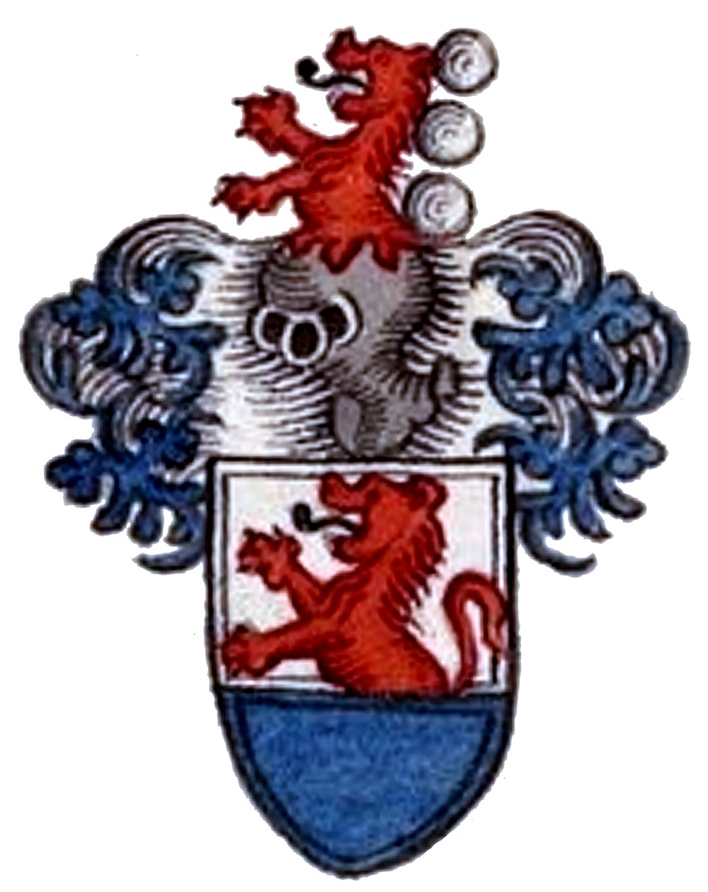 Coat of arms of Endingen family